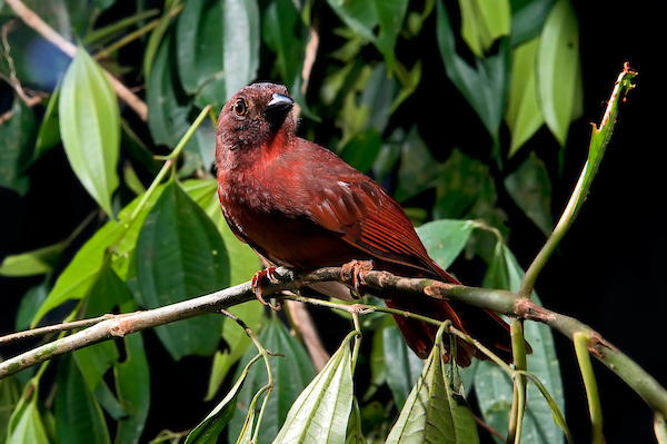 "Tiê-do-mato-grosso (Habia rubica) fotografado em Cariacica, Espírito Santo - Sudeste do Brasil. Bioma Mata Atlântica. Registro feito em 2012. ENGLISH: Red-crowned Ant-Tanager photographed in Cariacica, Espírito Santo - Southeast of Brazil. Atlantic Forest Biome. Picture made in 2012."